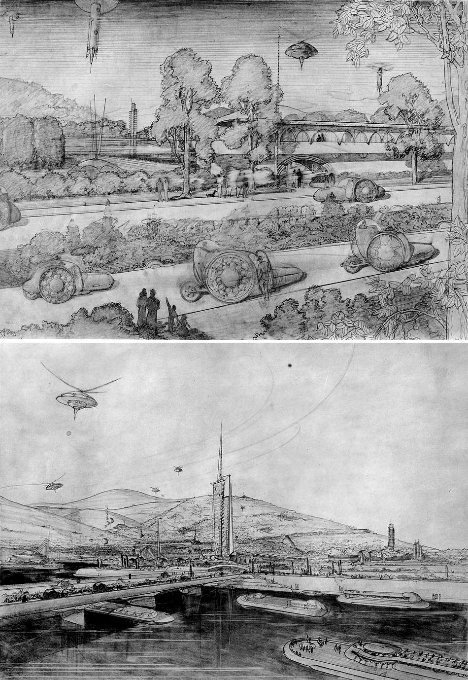 Sketches for Boadacre City project from Frank L. Wright.